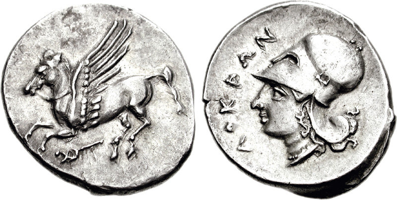 Lokroi Epizephyrioi. Circa 350-275 BC. AR Stater (8.65 g, 3h). Pegasos flying left; caduceus below / Head of Athena left, wearing Corinthian helmet. Pegasi 12; SNG ANS 512 (same obv. die); HN Italy 2342. Superb EF, light golden hues around the devices.